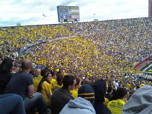 The student section at Michigan Stadium during its first game of the 2010 season. The game had 113,090 in attendance, an NCAA record.